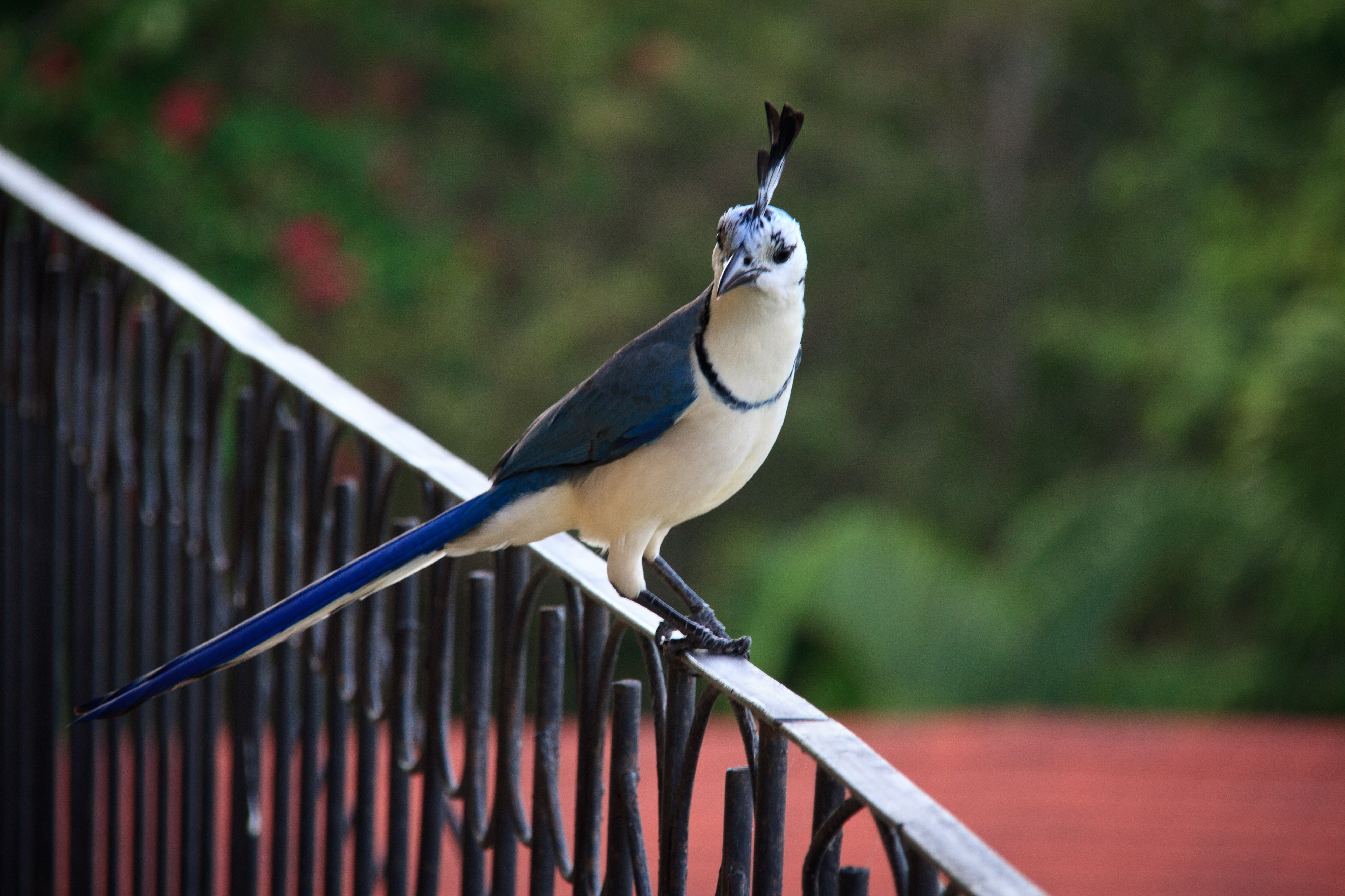 A White-throated Magpie-Jay in Papagayo Gulf, Guanacaste, Costa Rica.